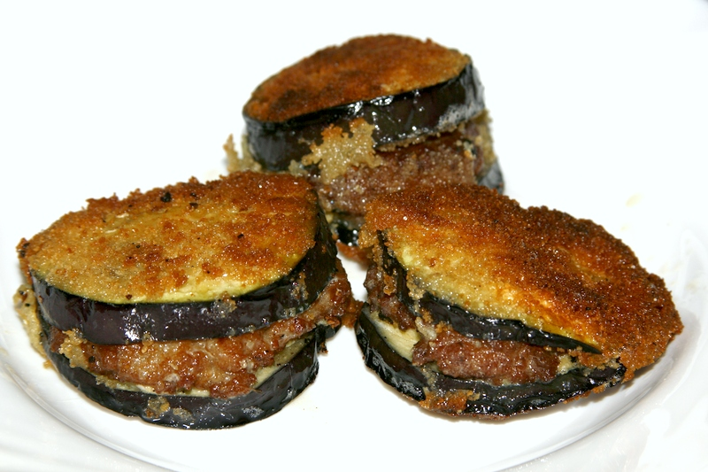 Filled Eggplant